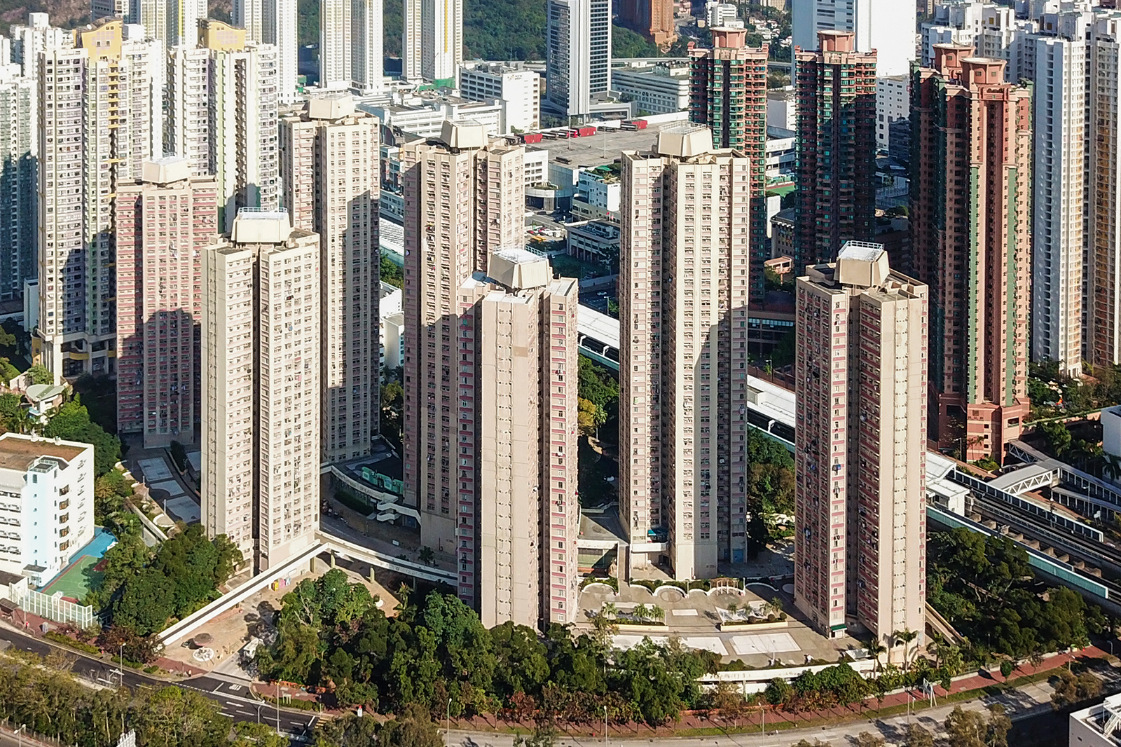 Yue Tin Court